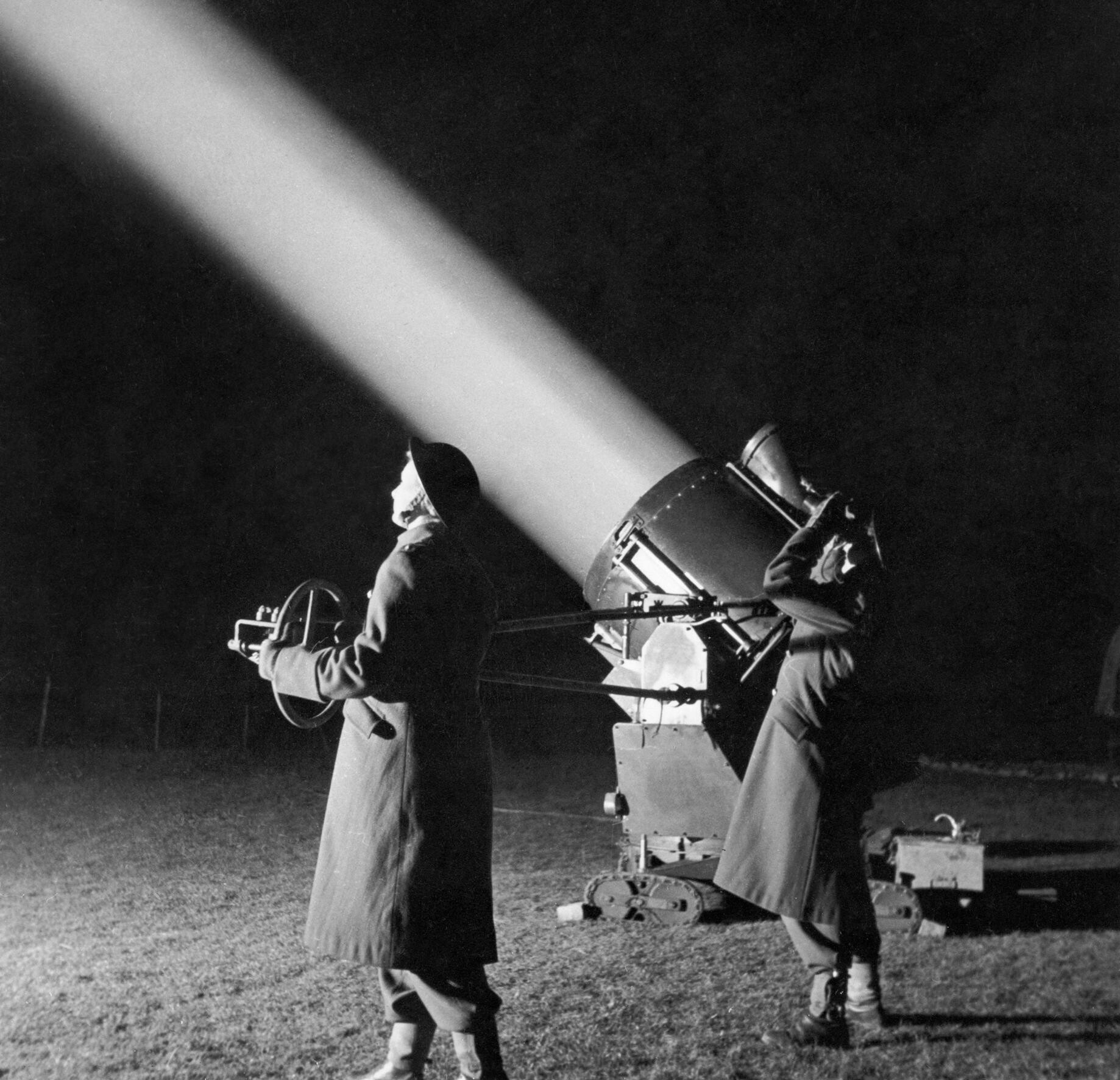 The Auxiliary Territorial Service in the United Kingdom 1939 - 1945 ATS officers-in-training man a searchlight in Western Command, 28 February 1944. Second Subaltern (2/Sub) Janet Holland is nearest the camera with 2/Sub Eileen Eteson behind. The ATS officers were required to spend six weeks at a searchlight site in order to have first hand experience of the work and conditions of the women under their future command. This is a 90cm projector. The operator moves the light using the wheel at the end of the long arm, in the foreground. This arrangement allowed the operator to stand outside the glare of the lamp.